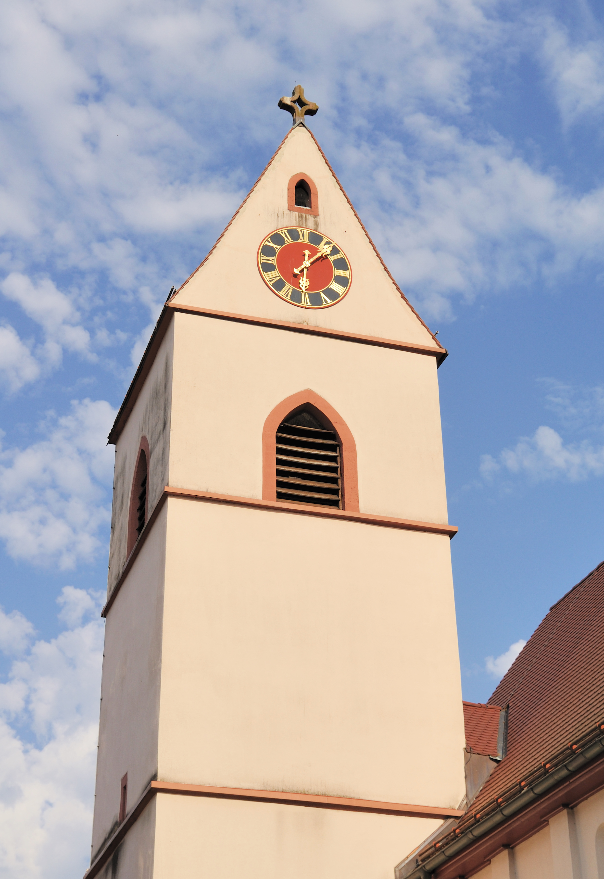 Steinen-Höllstein: Protestant Church